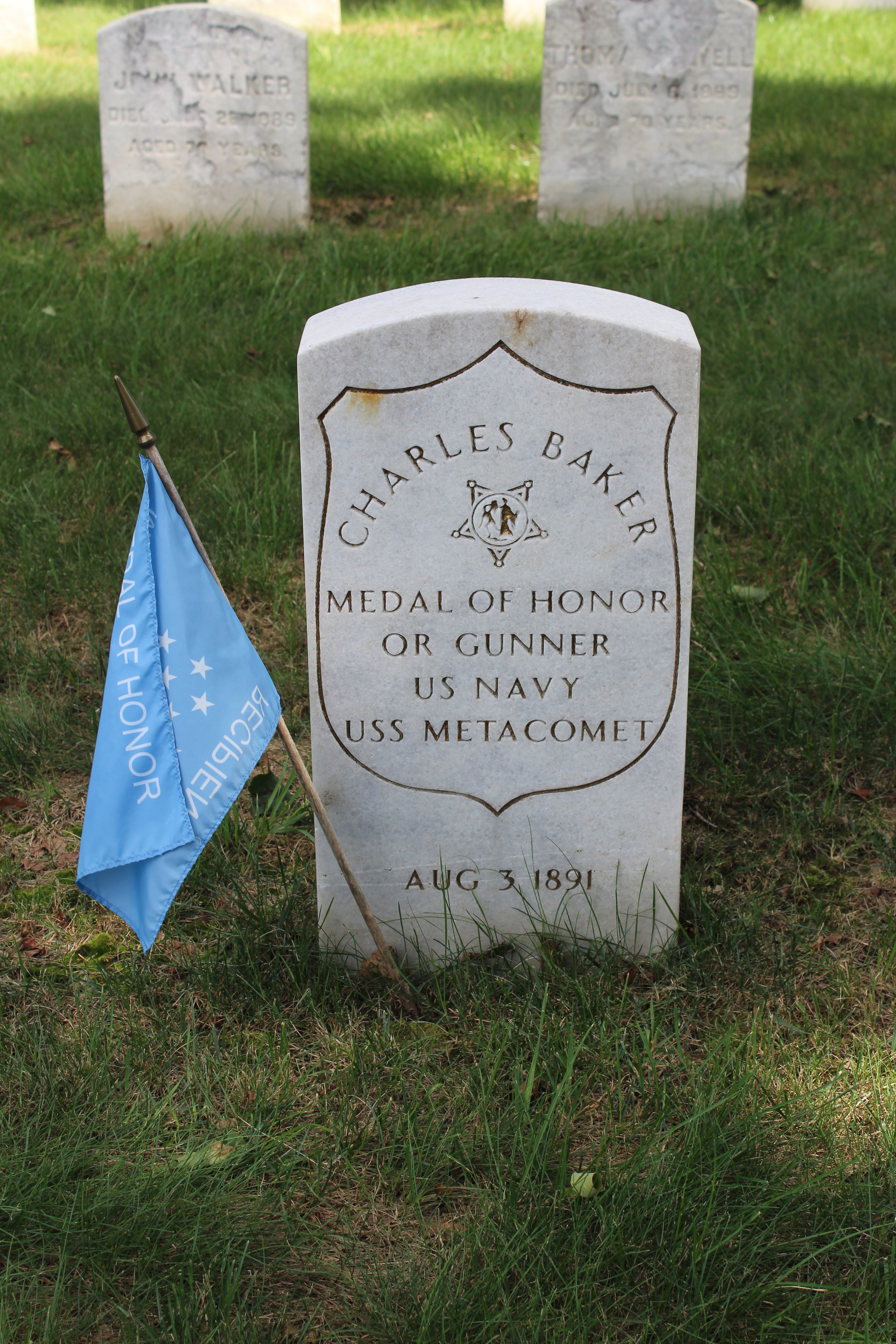 Charles Baker headstone in Mount Moriah Cemetery Naval Plot in Yeadon, Pennsylvania. Photo taken August 2019.